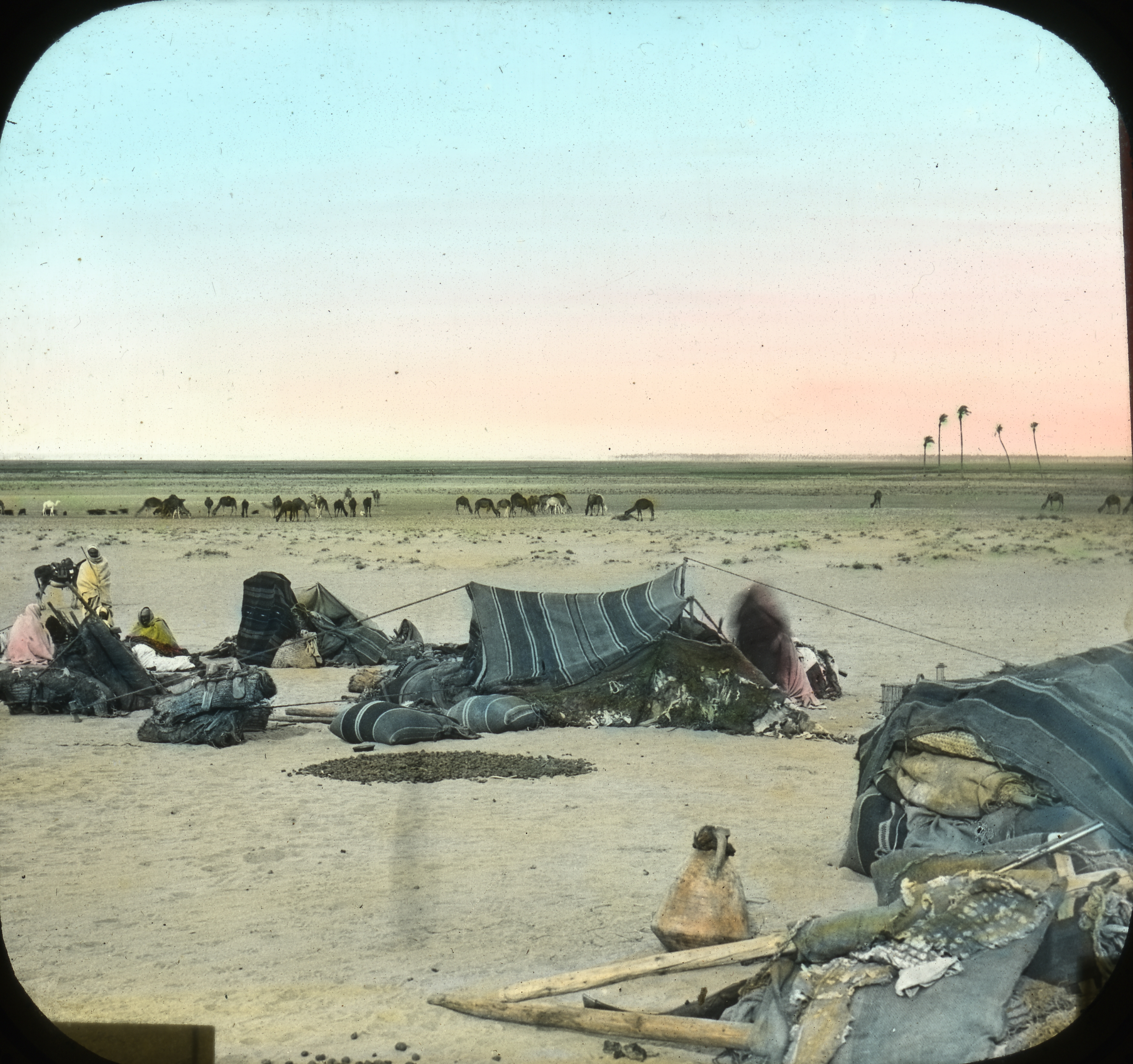 Lantern Slide Collection: Views, Objects: Egypt. General Views\People [selected images]. View 029: Egypt - Bedouins Pasturing Camels, Abusir., n.d., T. H. McAllister, Manufacturing Optician. 49 Nassau Street, New York. Brooklyn Museum Archives (S10|08 General Views_People, image 9772). Help us map this image by using Suggestify to suggest a location for it.